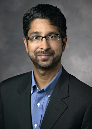 A portrait of Vijay Pande, looking straight ahead. His ethnicity is Indian. He has medium-length black hair, black-rim glasses, and a short mustache and beard. He is wearing a blue dress shirt under a black suit coat.